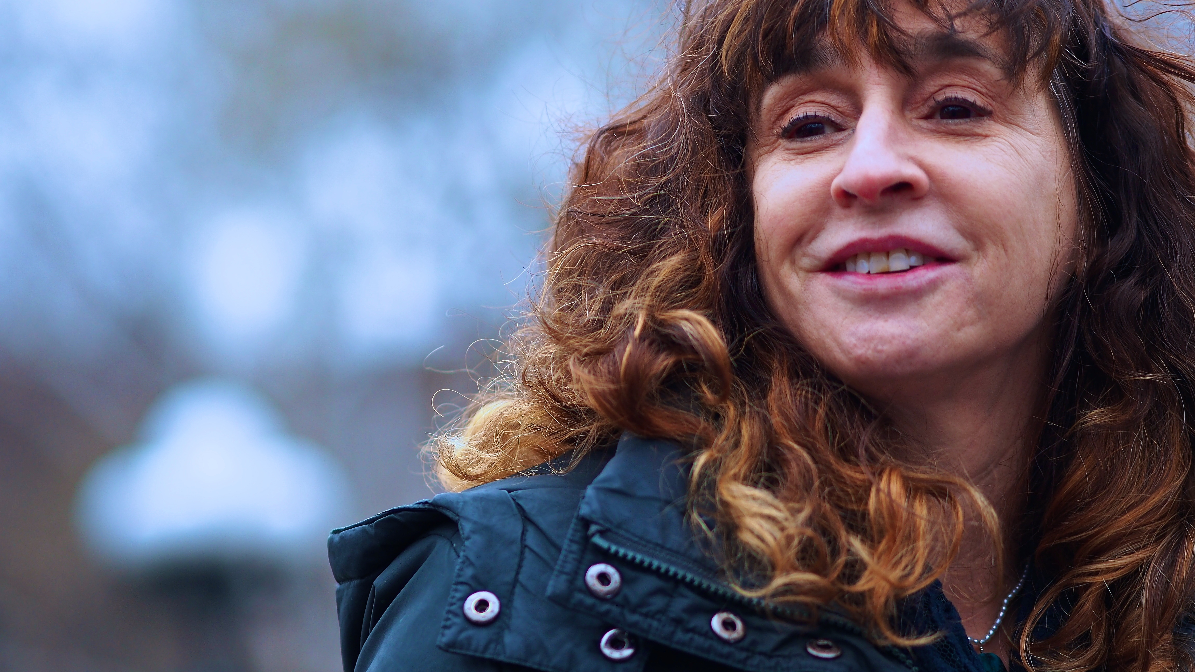 Kim Addonizio